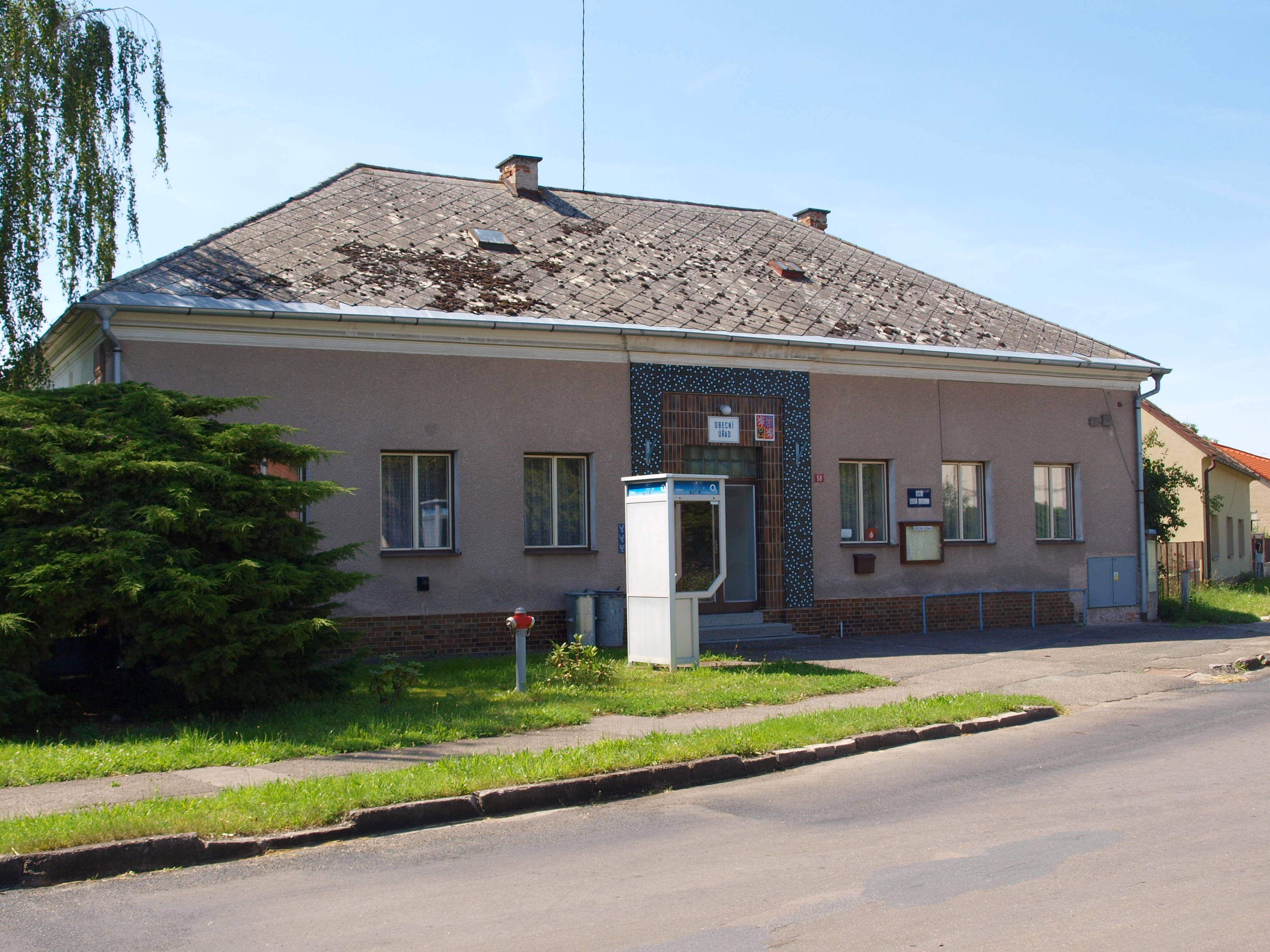 Municipally office, Křečkov, Nymburk District, Central Bohemian Region